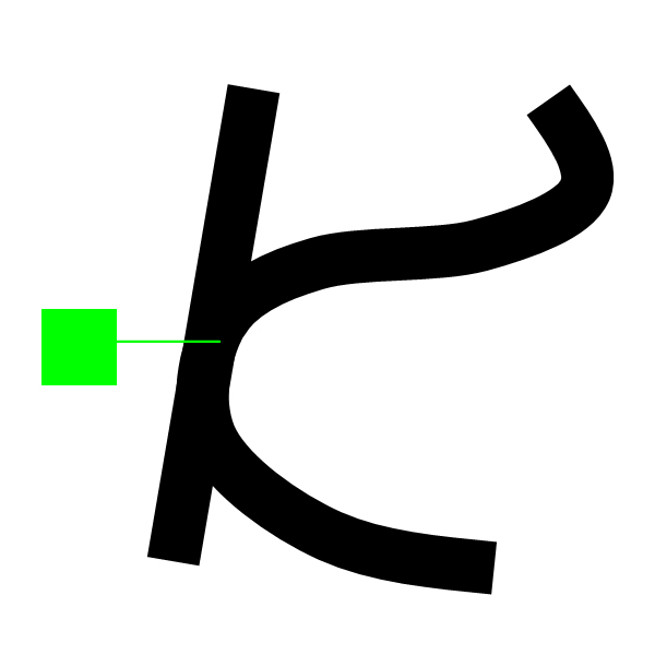 covering curve